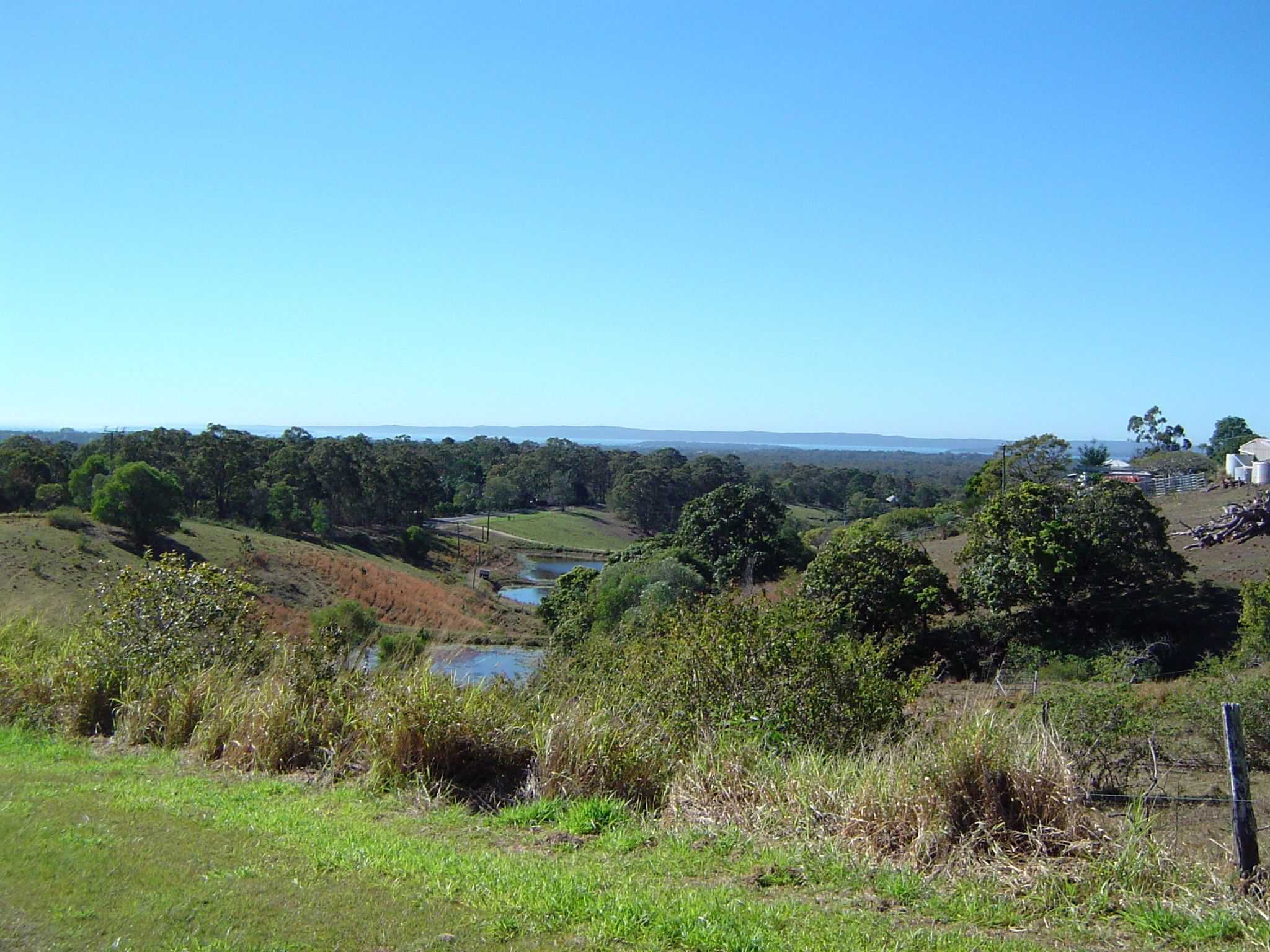 Photo of the view towards Moreton Bay from Mount View Road at Mount Cotton, Redland City, Queensland, Australia.